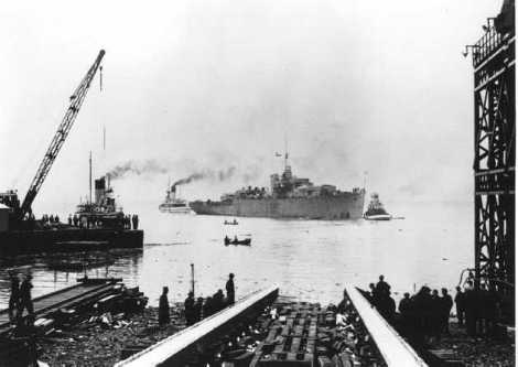 River class frigate HMCS Prestonian at launch.